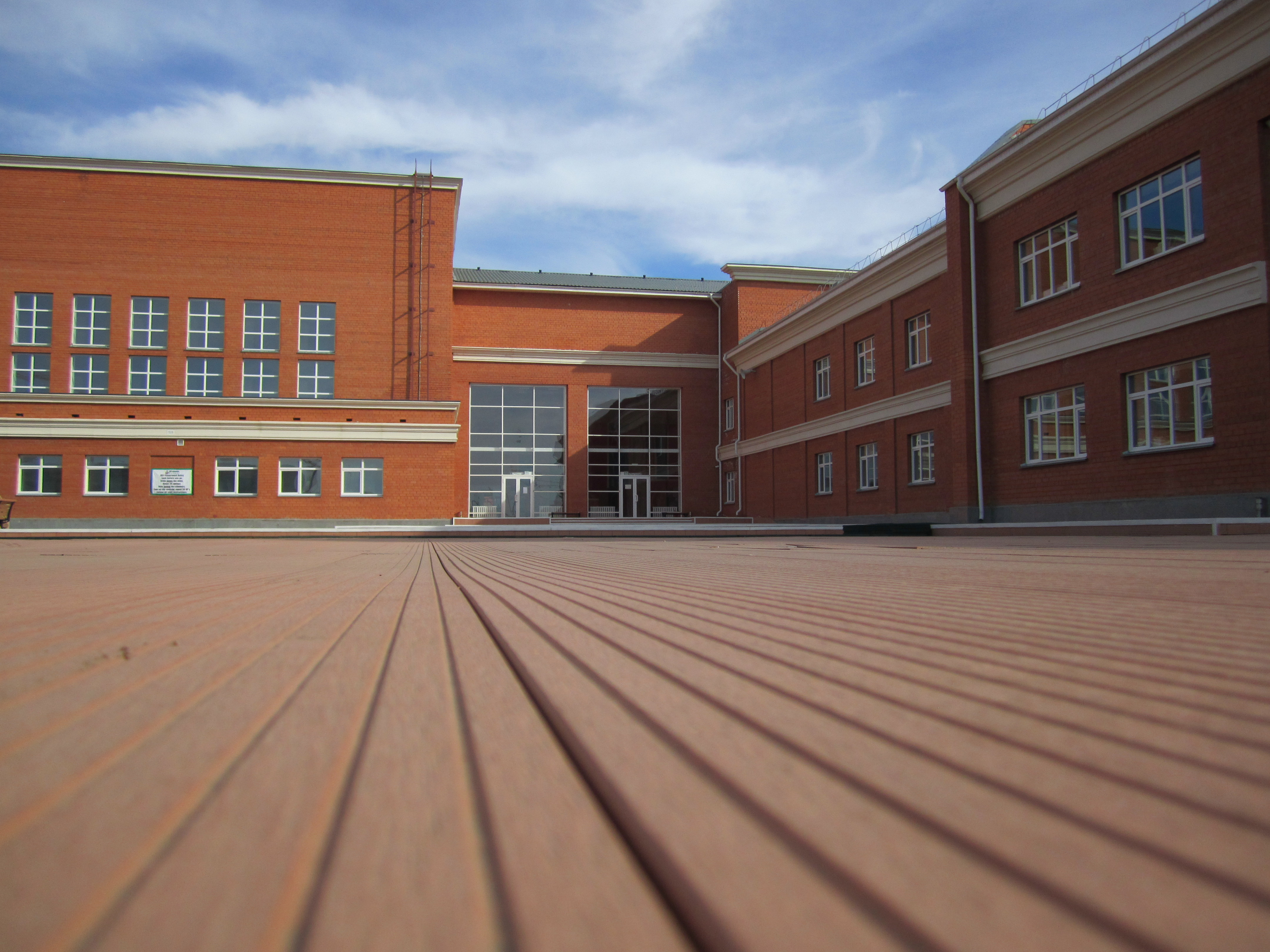 Preview of the facility.